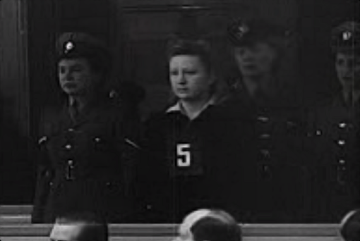 Dorothea Binz (1920-1947), 1st Ravensbrück Trial 1947: The Sentencing. Binz (wearing a number 5 placard) is flanked by female guards from the Royal Military Police.